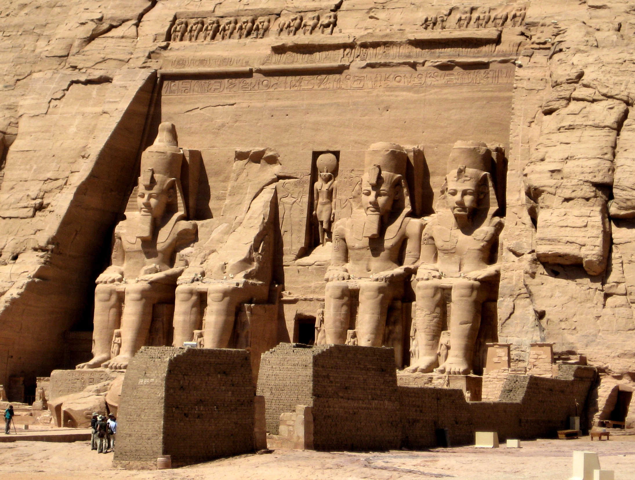 Temple of Ramses 2